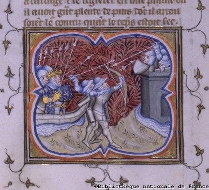 siege of Tunis during 8th crusade